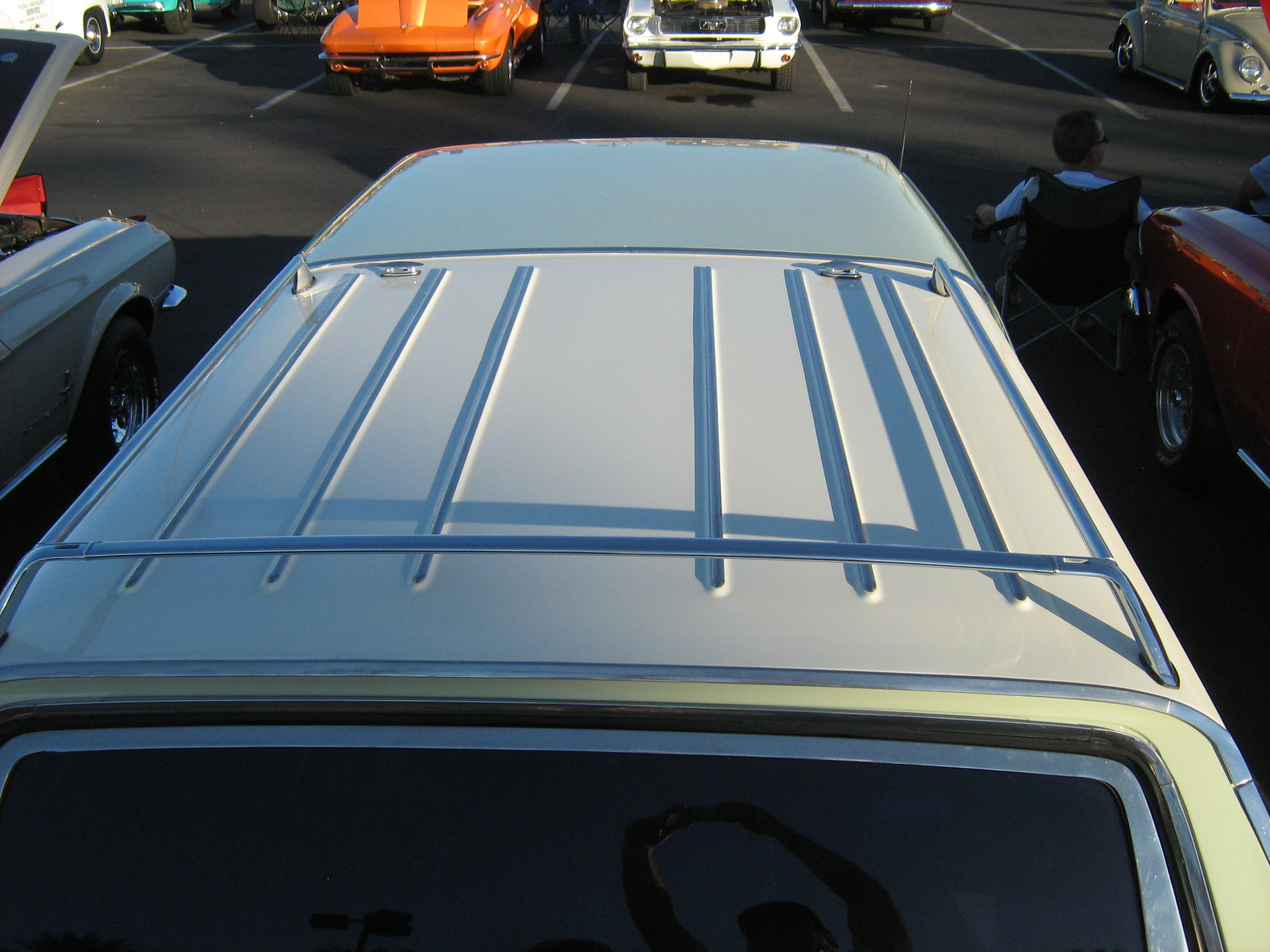 1966 Ambassador 990 station wagon by American Motors Corporation (AMC). Detail of the standard roof rack, and the one-year only roof design finished in optional two-tone paint (white).